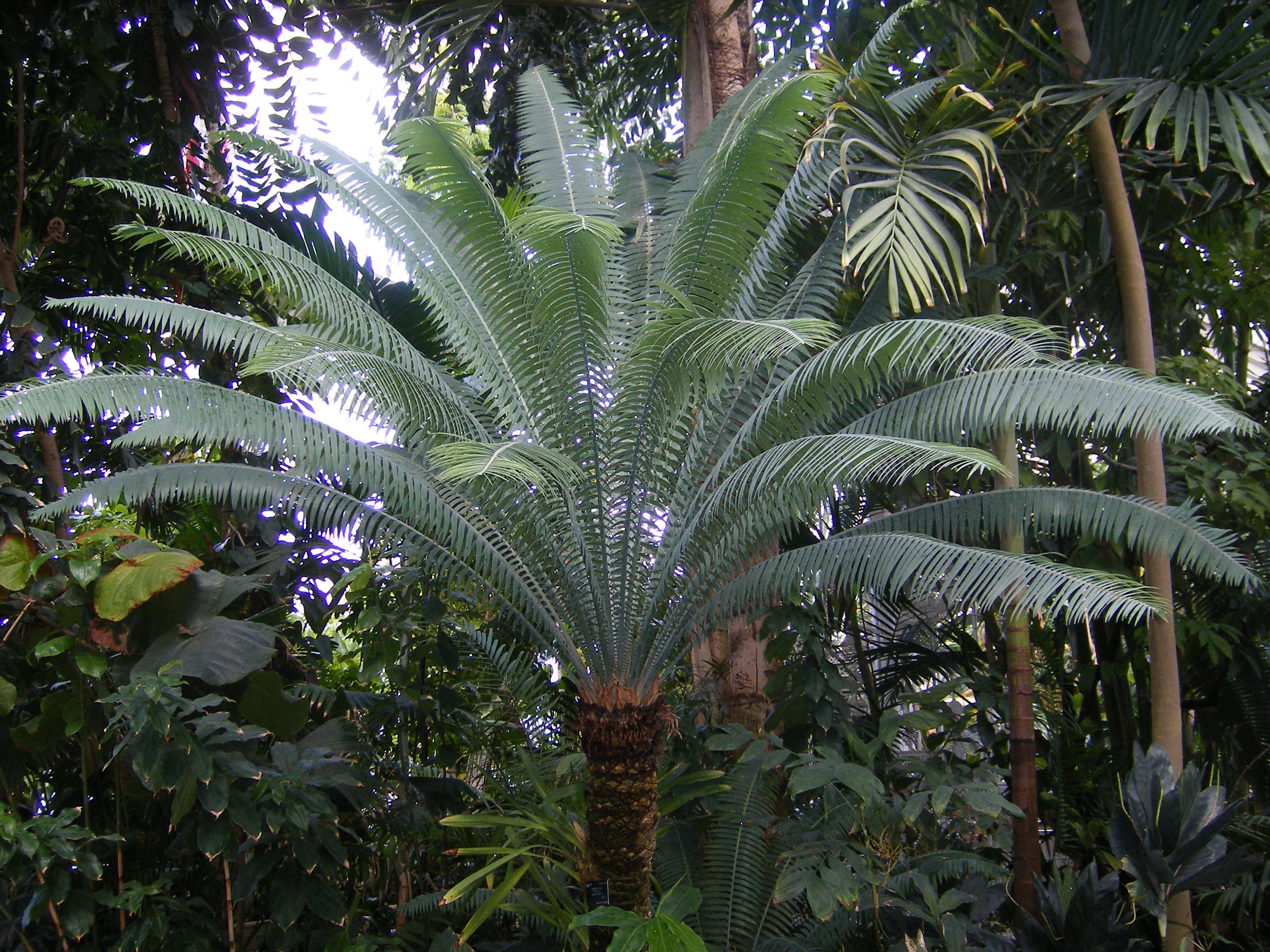 A cycad, genus Dioon (this is not a fern)